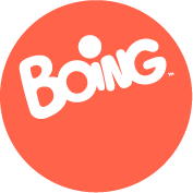 Boing channel logo